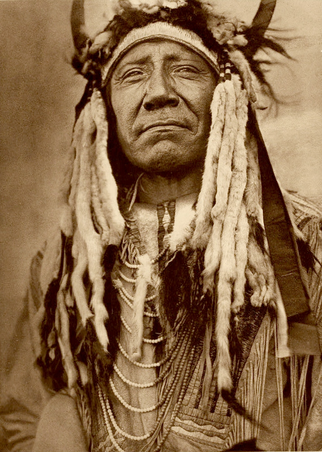 Photograph of Two Moons (1847–1917), a Cheyenne Chief who participated in the Battle of the Little Bighorn